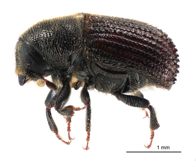 Lateral view of a specimen of Phloeosinus cupressi photographed by Landcare Research New Zealand Ltd.